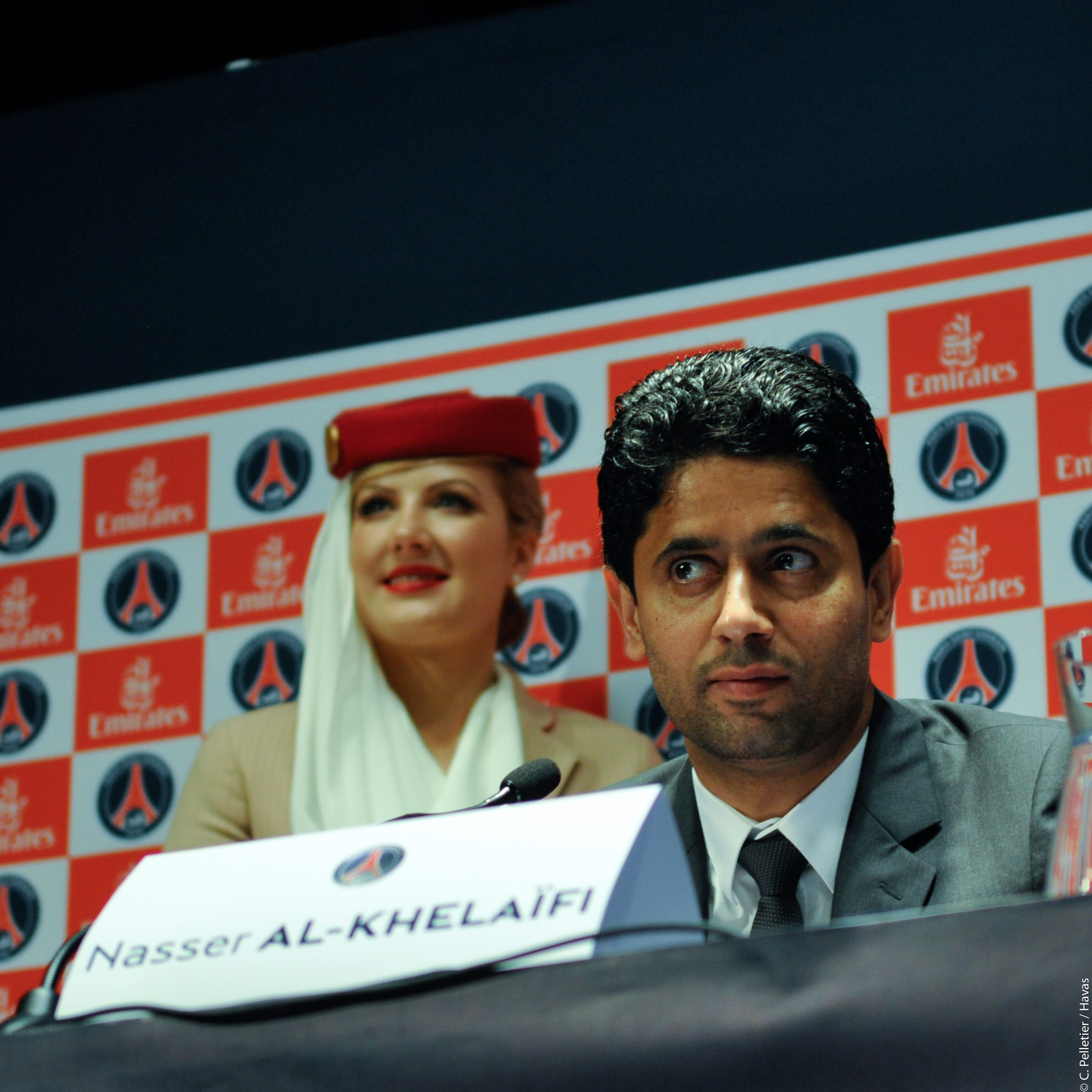 Nasser Al-Khelaïfi, president of Paris Saint-Germain